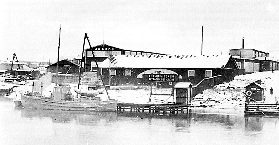 Andros (André & Rosenqvist) yard in Turku, Finland.